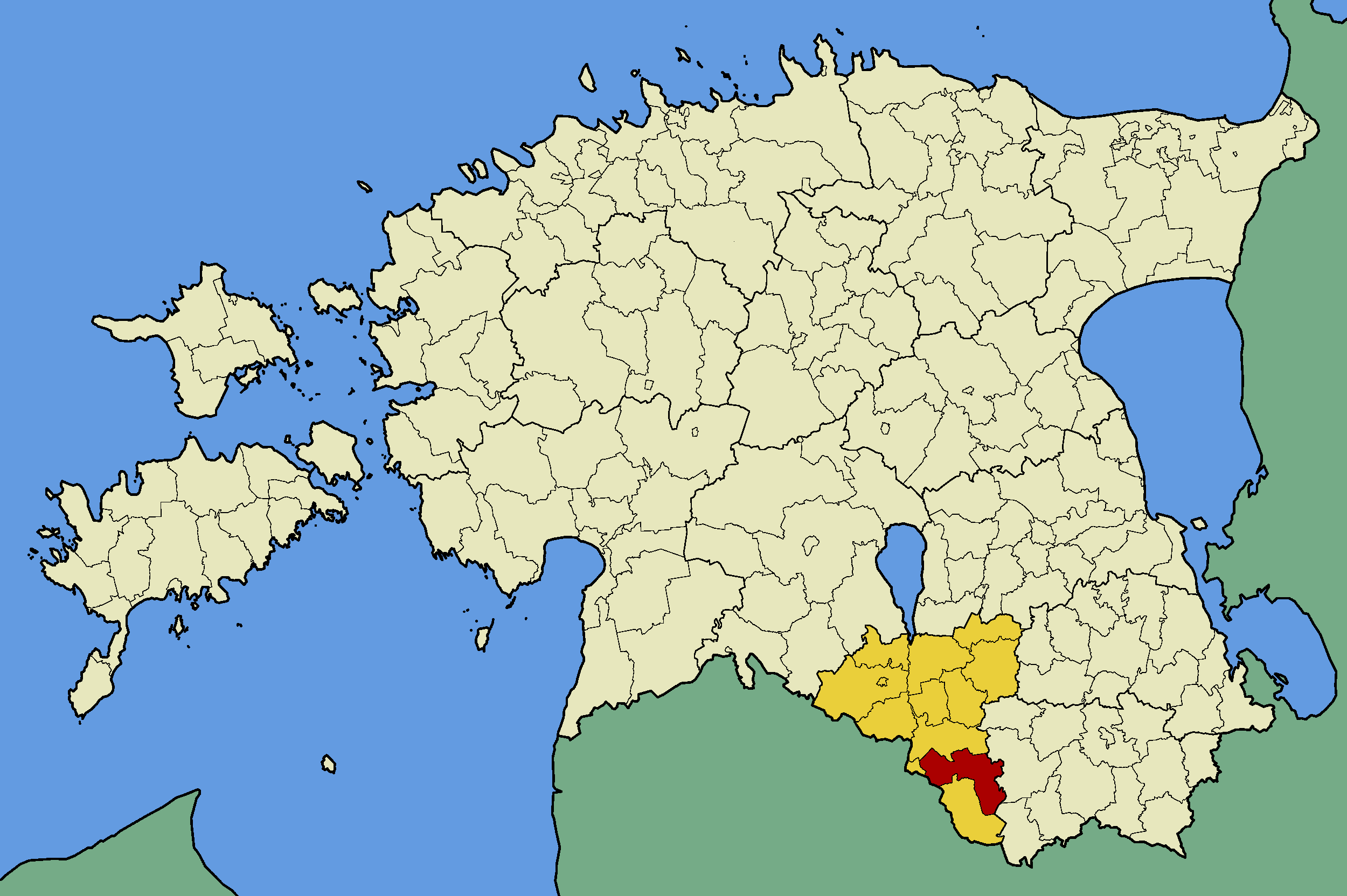 Map of Estonia with borders of municipalities (parishes). Valga county and Karula municipality emphasized.